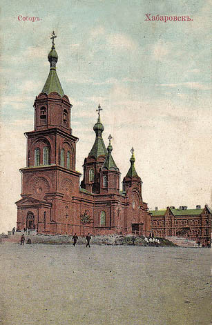 Cathedral in Habarovsk. Old pre-1917 postcard Flickr data on 2011-08-13 Tags: Old picture, Postcard, Habarovsk, Public Domain License: CC BY-SA 2.0 User: paukrus Ruslan